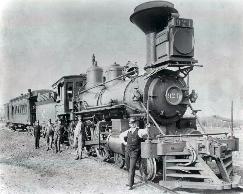 Photo of Union Pacific's steam locomotive 924. This locomotive was built by Taunton (number 437) in July 1868, and entered the roster as number 98. It was re-numbered as 945 in 1880, and once again was renumbered as 1220 in 1915. The locomotive left service in 1923.